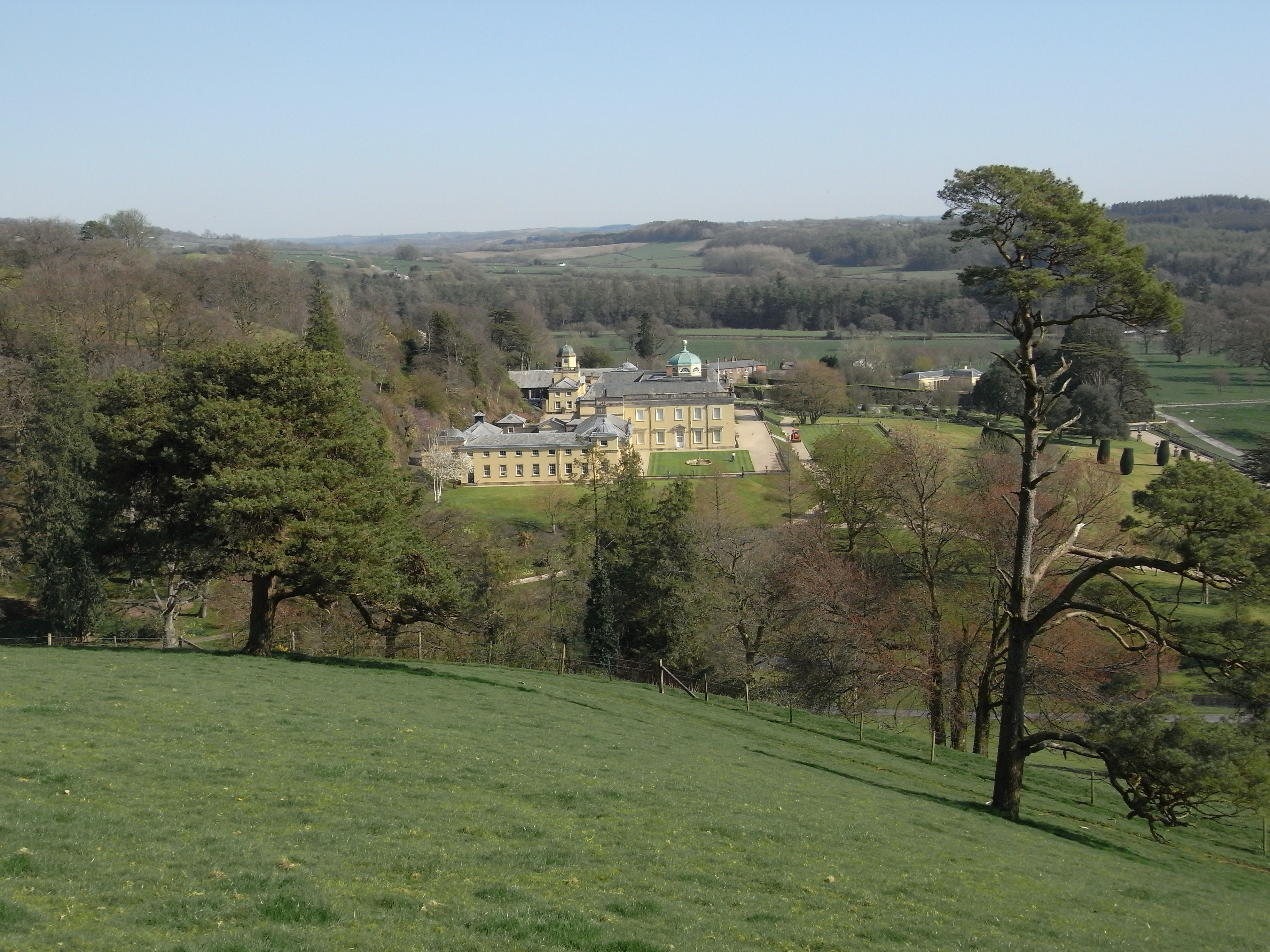 Castle Hill, Filleigh, Devon. View of west side, seen from Oxford Down hill looking eastwards.